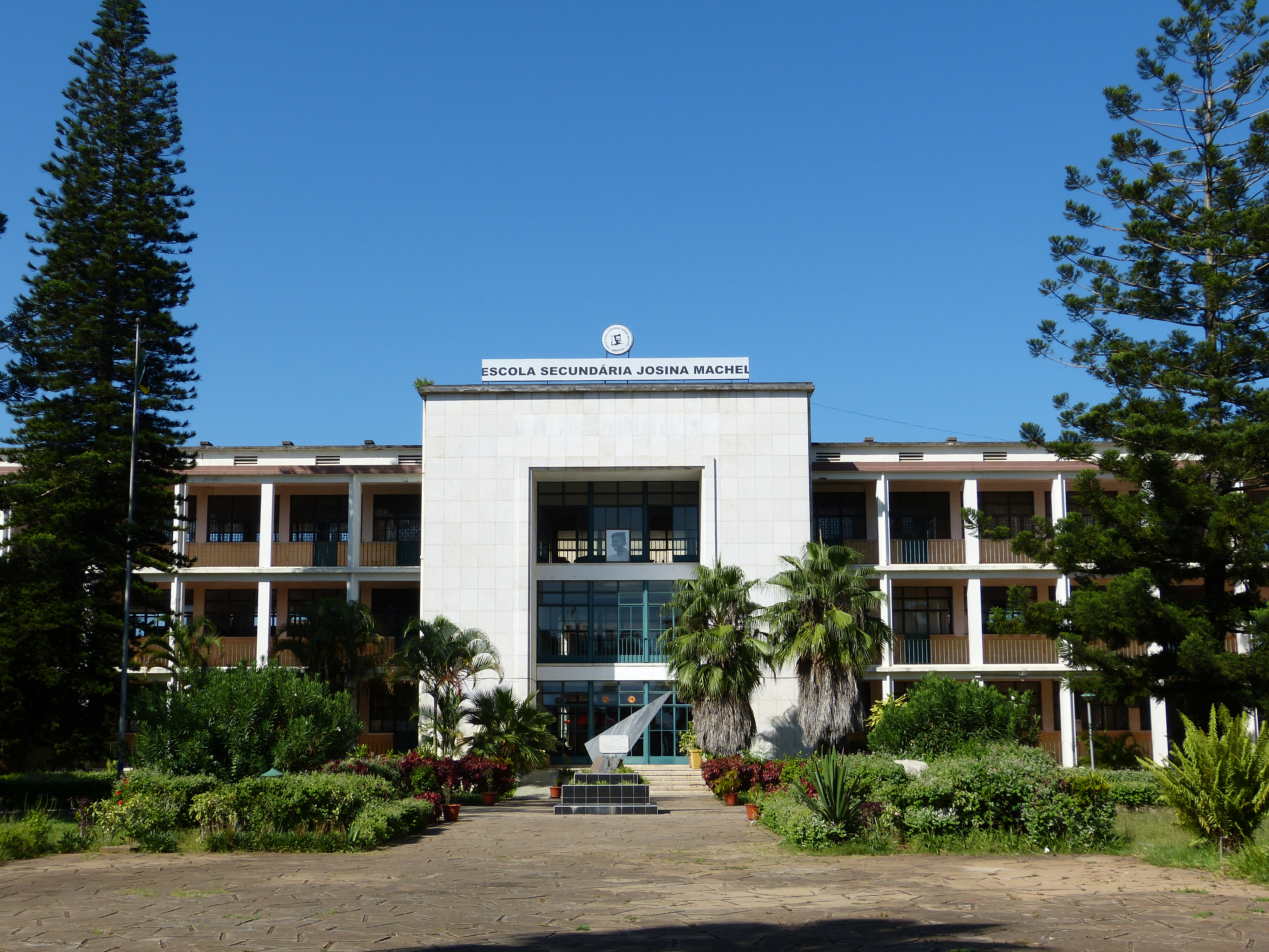 Highschool "Escola Secundária Josina Machel" in Maputo, Mozambique